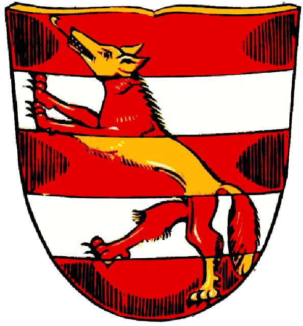 Coat of Arms of Fuchsstadt